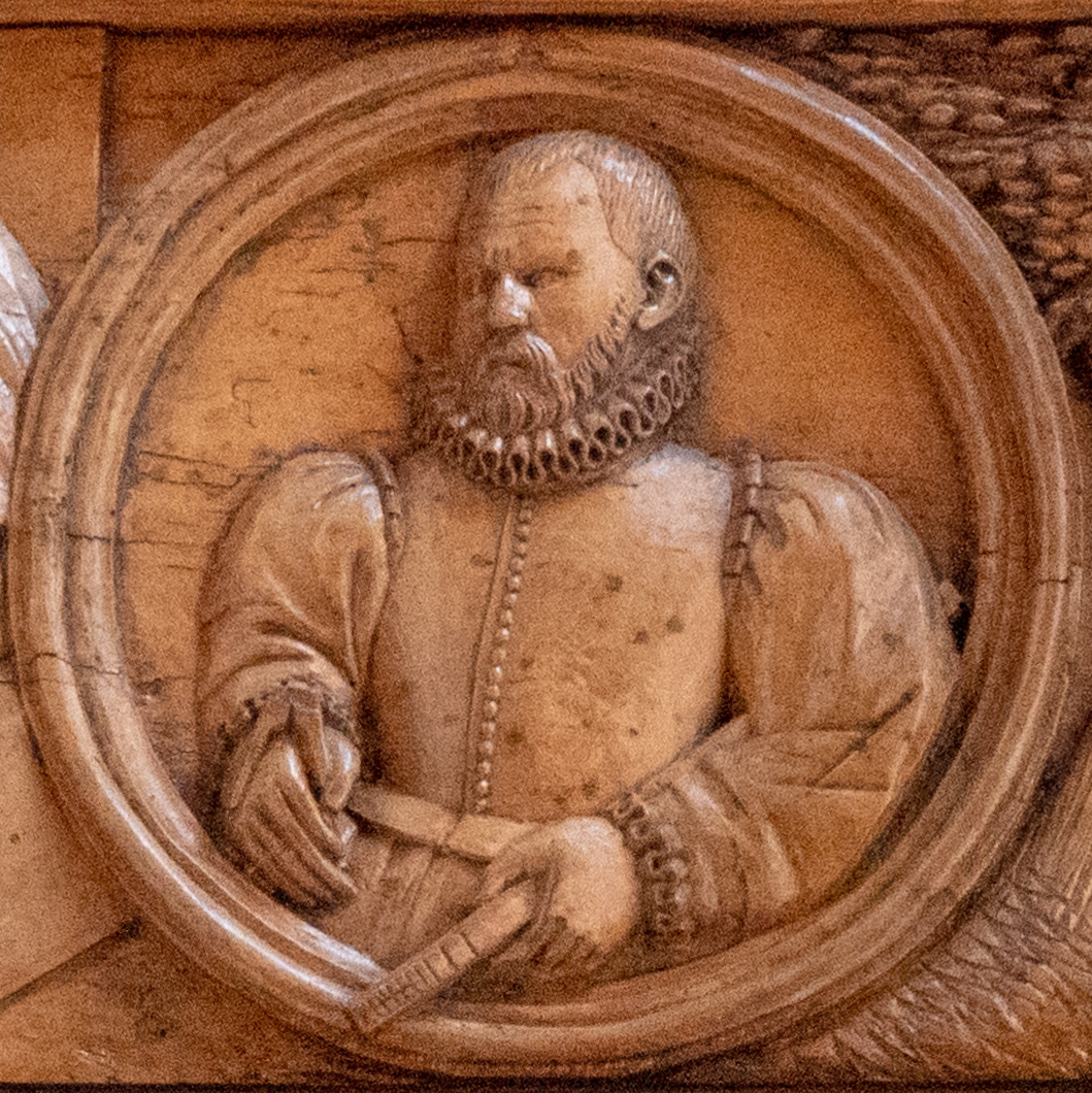 Hans Drege, presumed self-portrait, Fredenhagen room in Merchants' guildhall at Lübeck, western wall (=File:Fredenhagenzimmer Westwand W1.jpg cropped)